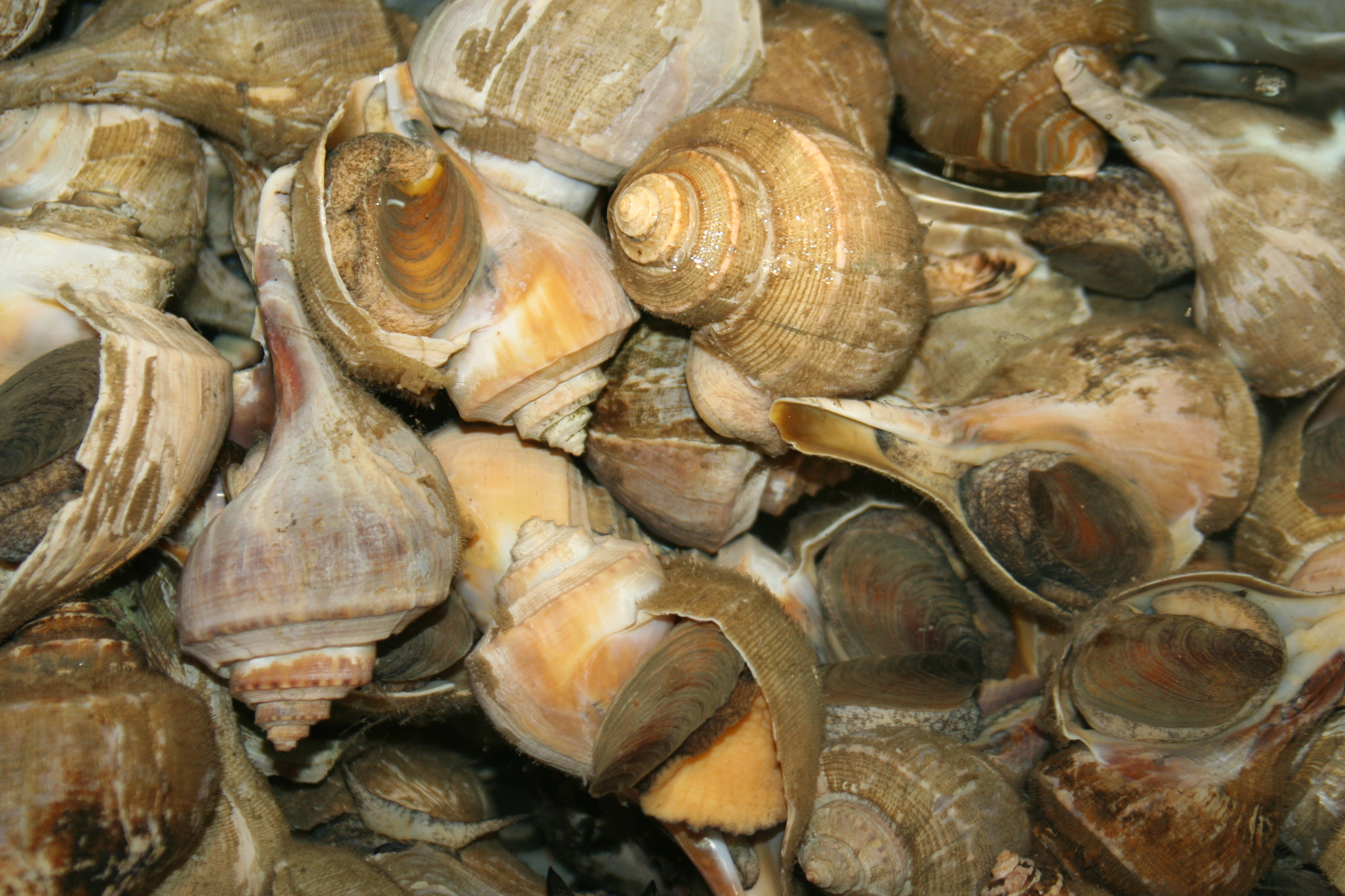 Large eastern conch for sale at a California seafood market in 2009. By ChildofMidnight, please attribute